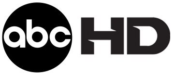 The "ABC HD" logo, employed by the American Broadcasting Company since 2007. Here, ABC's 2007 "gloss logo" is replaced with its much simpler predecessor, in order to facilitate acceptance of the file on those Wikipedias that do not allow non-free content.